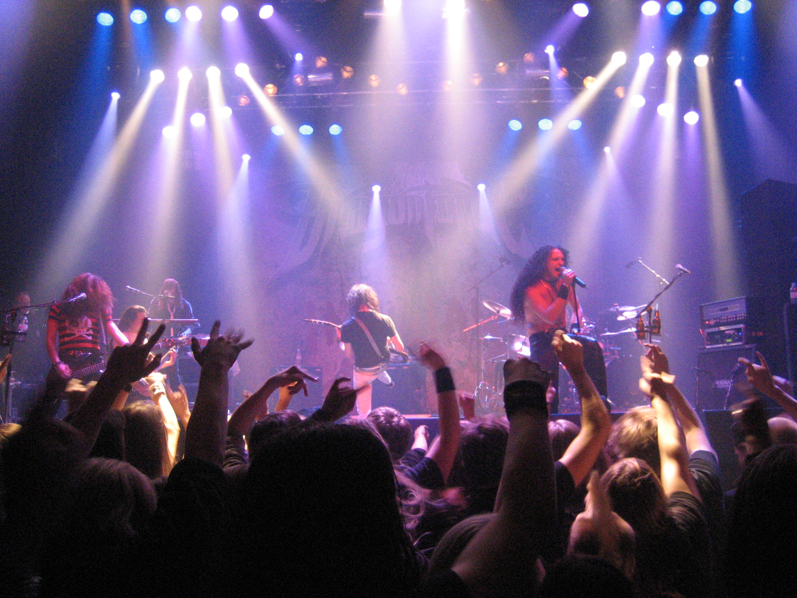 DragonForce Finnish Metal Expossa